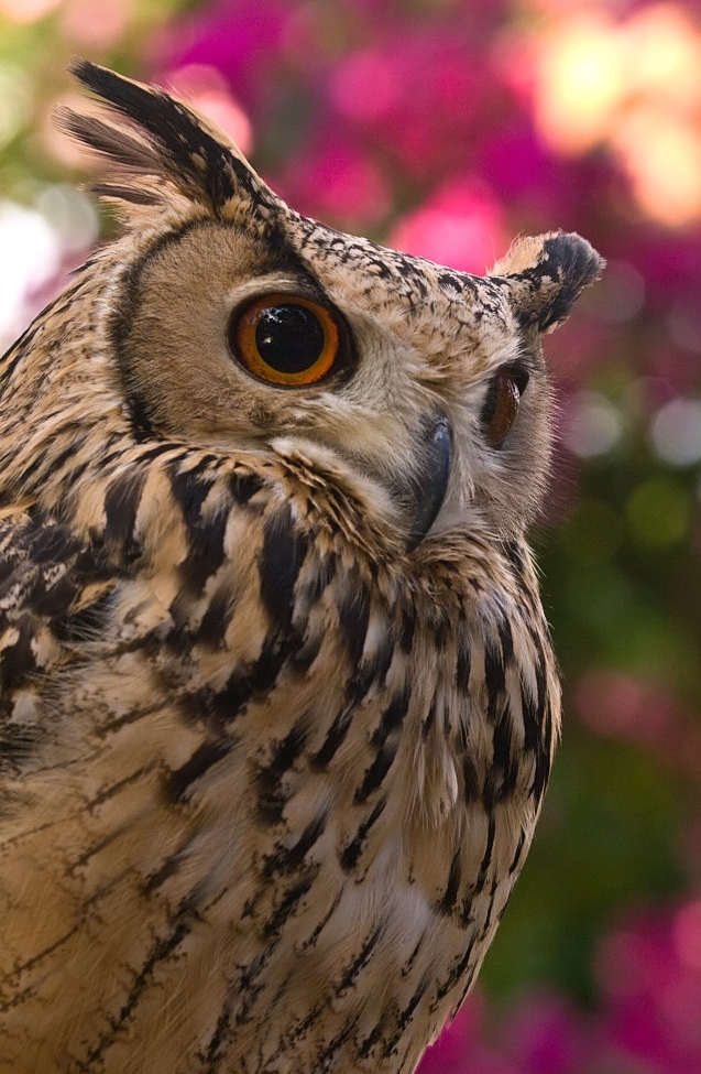 Bubo Bubo turcomanus